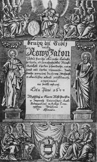 Wenceslas Bible